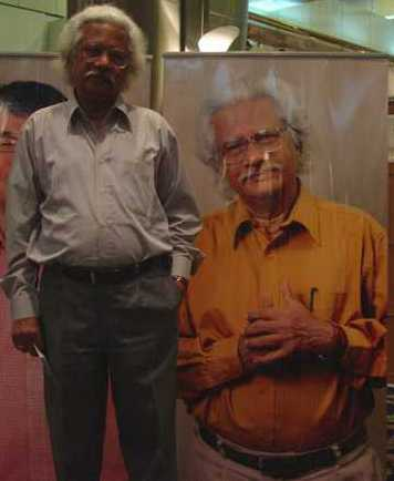 A photo of Indian filmmaker Adoor Gopalakrishnan. This photo was taken by the submitter at the Shanghai International Film Festival 2005.